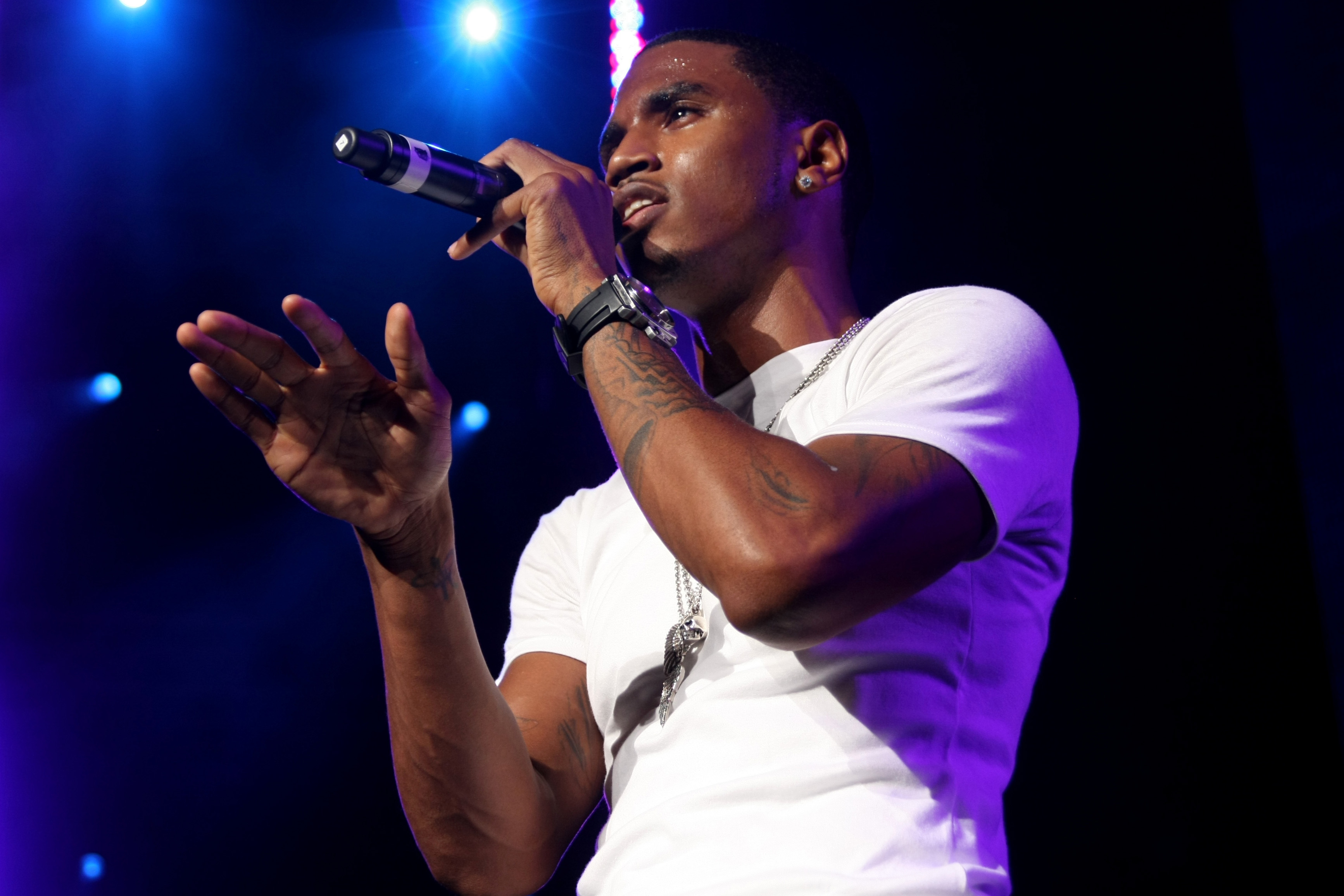 Trey Songz performing at the 94.5 Summer Jam on June 5, 2010